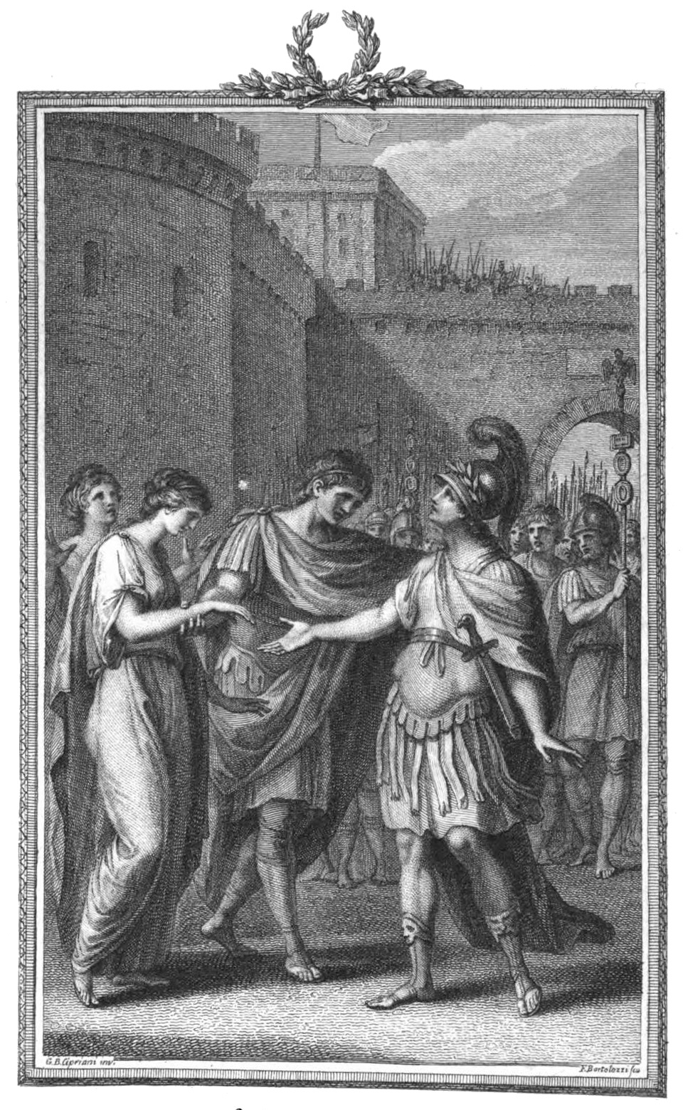 Illustration of the final scene of the final act (Act 3) of the opera Romolo ed Ersilia. Curzio gives his daughter Ersilia's hand in marriage to Romolo saying : "Ah figlio, ah basta: eccoti Ersilia; ai vinto."